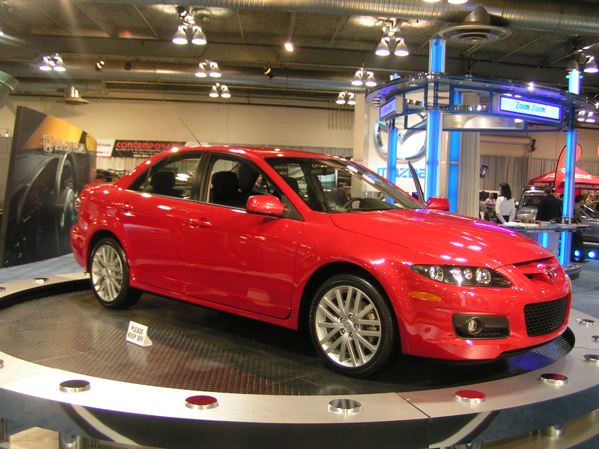 2005 Mazda Mazdaspeed 6 at the Calgary Auto and Truck Show.